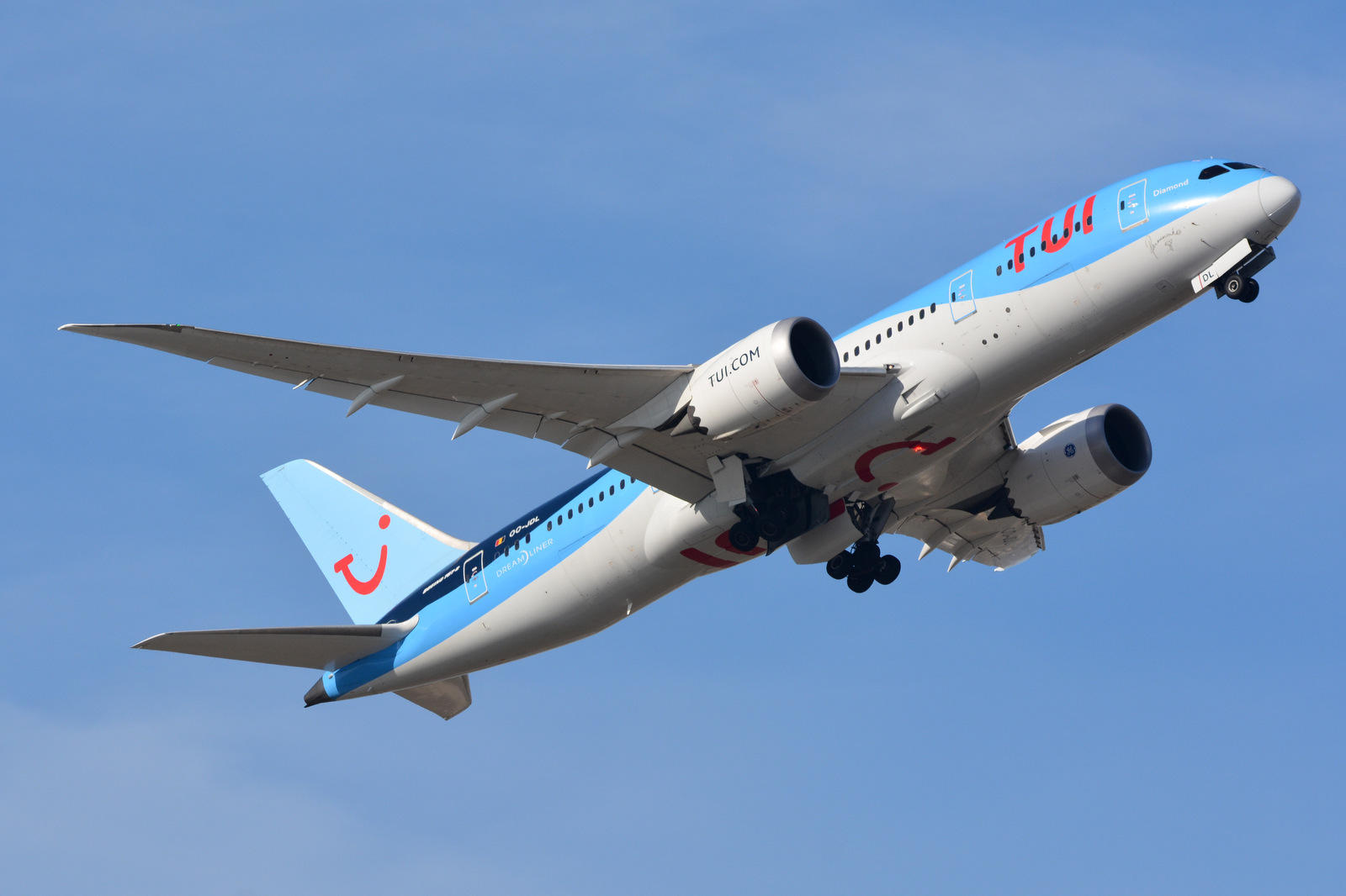 Paris-Orly Airport